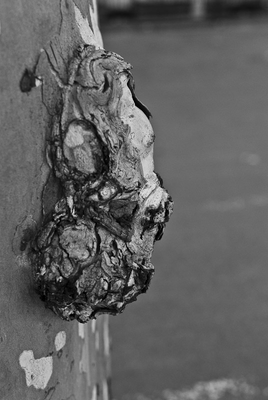 Ceratocystis platani, a fungus and a plant pathogen, formerly known as Ceratocystis fimbriata f. platani